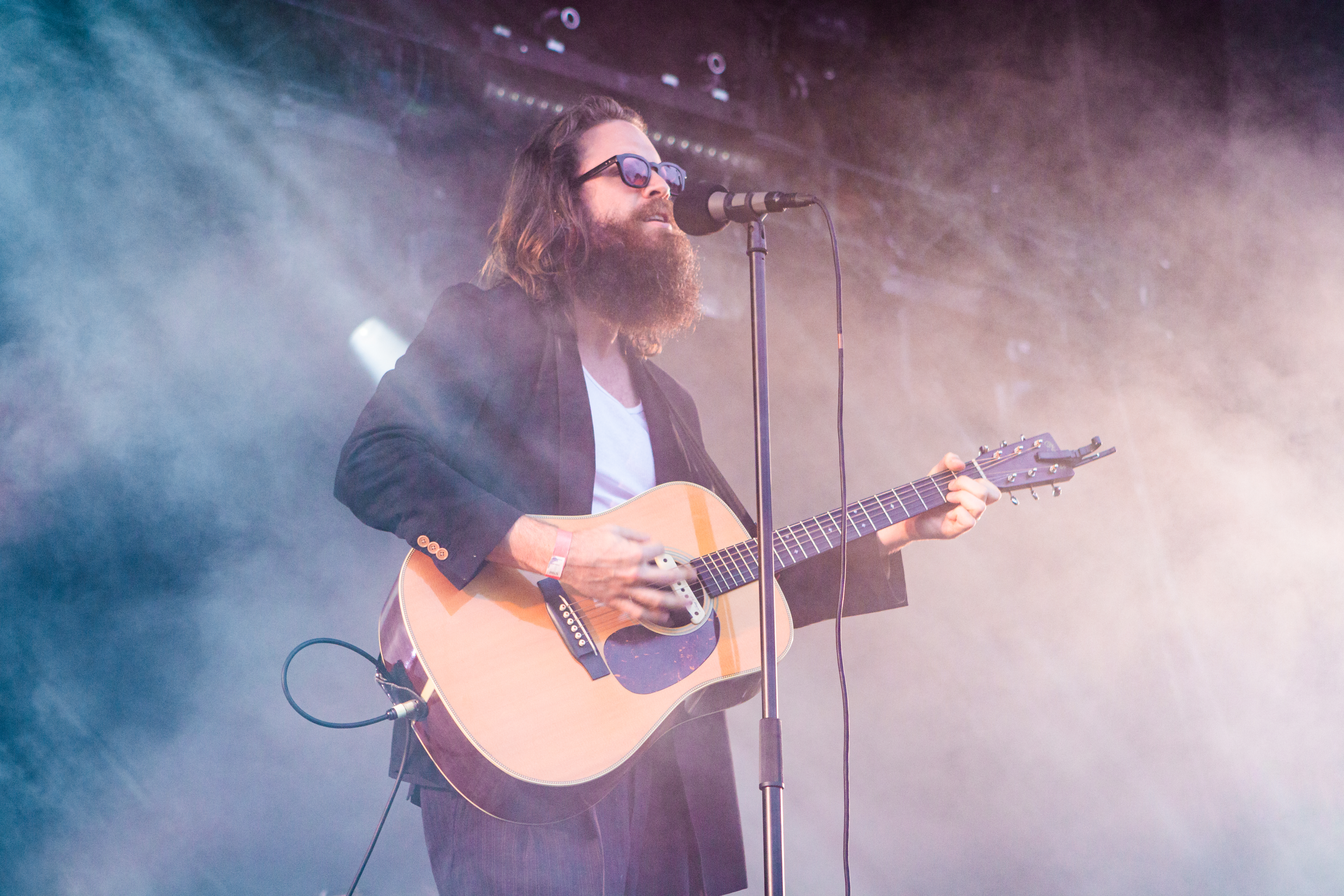 Father John Misty on the Mainstage at Haldern Pop Festival 2019.